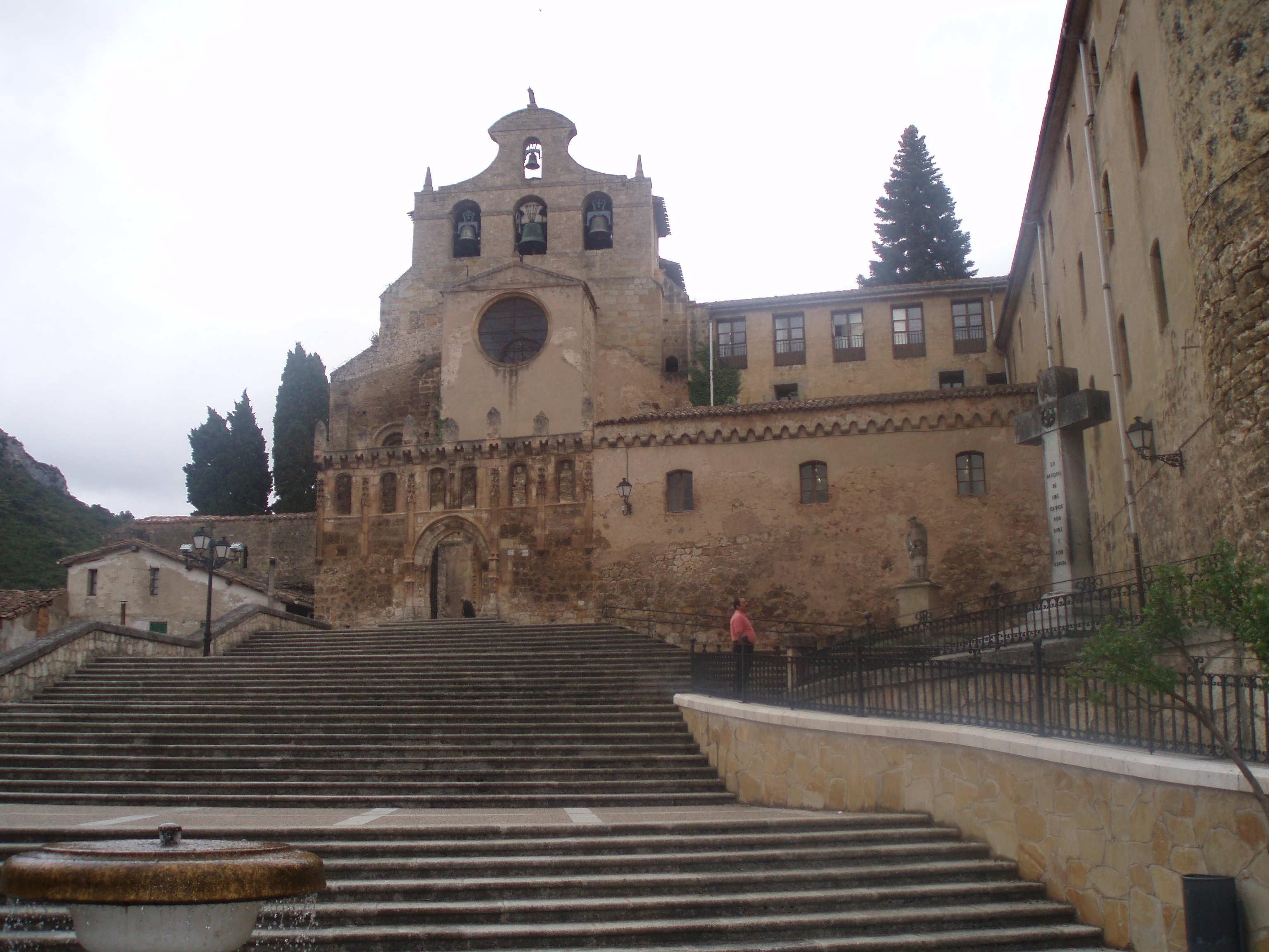 Monastery of Oña, in province of Burgos. (Spain).